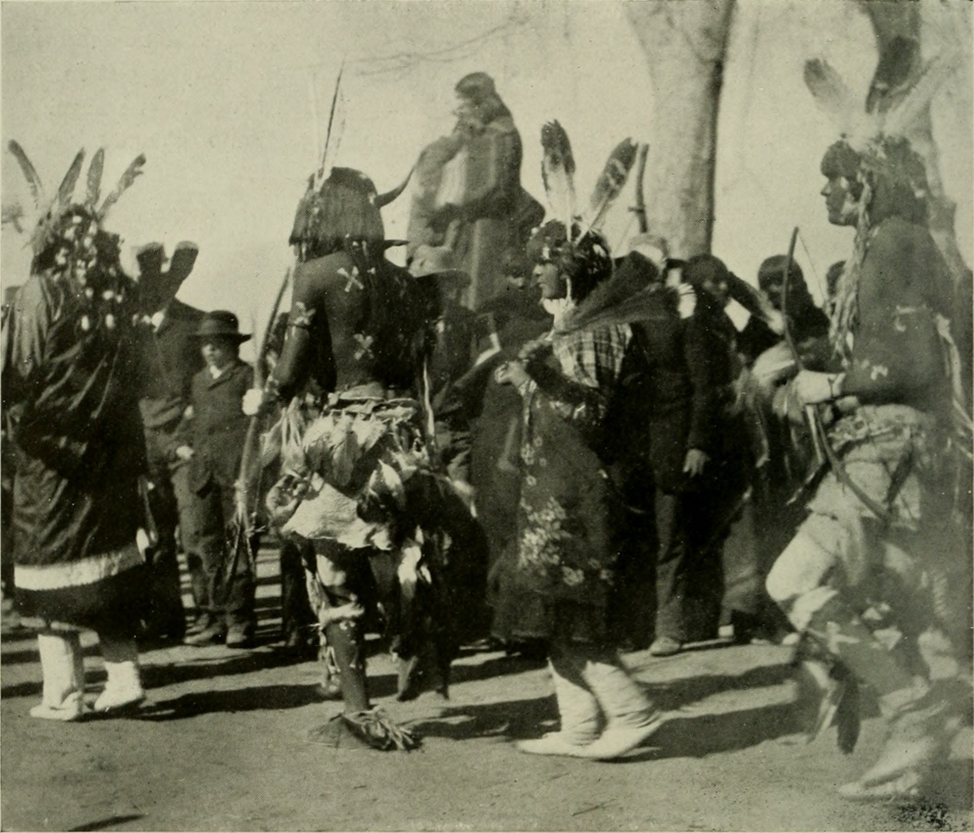 Title: The American Museum journal Year: c1900-(1918) (c190s) Authors: American Museum of Natural History Subjects: Natural history Publisher: New York : American Museum of Natural History Text Appearing Before Image: ' Text Appearing After Image: ri..jto by E. IV. D, miu.j. 1S93 Forward movement of side line of dancers in Buffalo Dance. San Ildefonso. To the rhythmic beat of dnmis tiie dancers advance slowly, swaj-ing alternately to right and left and shaking their rattles toward the ground on the one side and then on the other